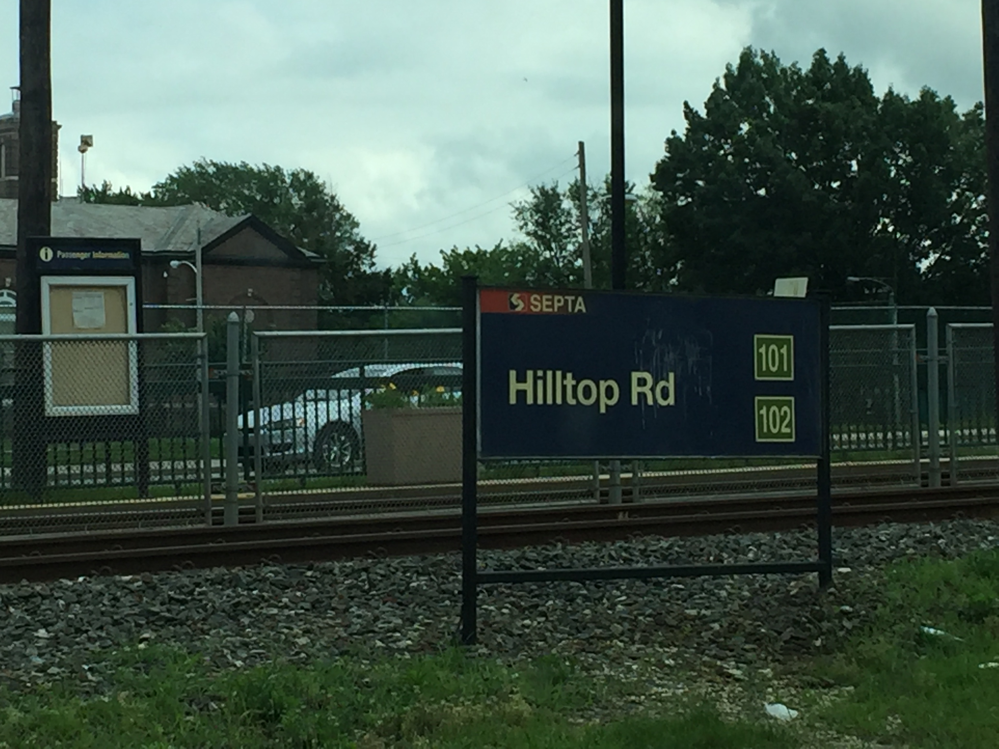 Hiltop road station